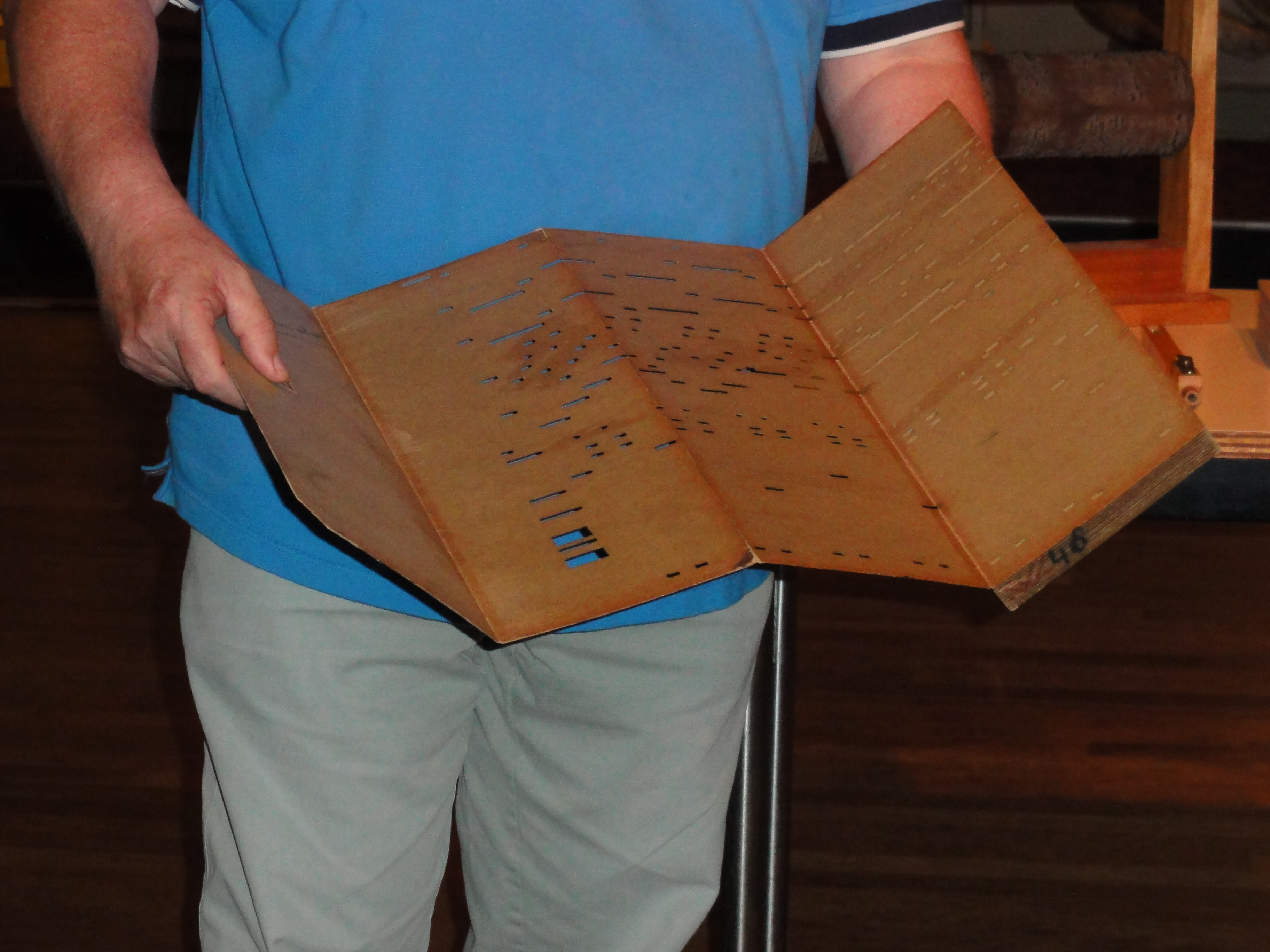 Helmond (NL) Gaviolizaal, Orgelboek